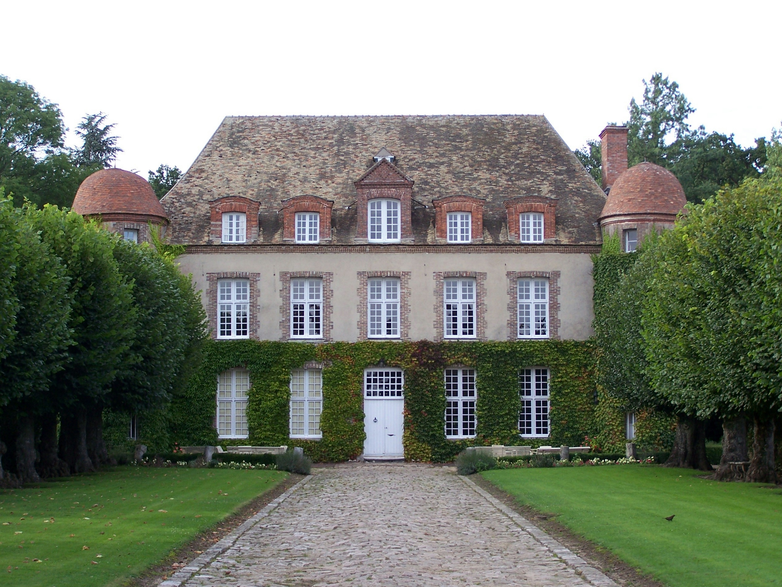 Castle of Tilly (Yvelines, France)